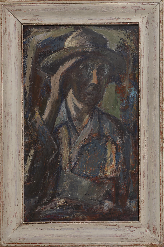 Self portrait of Amanda Snyder (1894-1980), oil on masonite